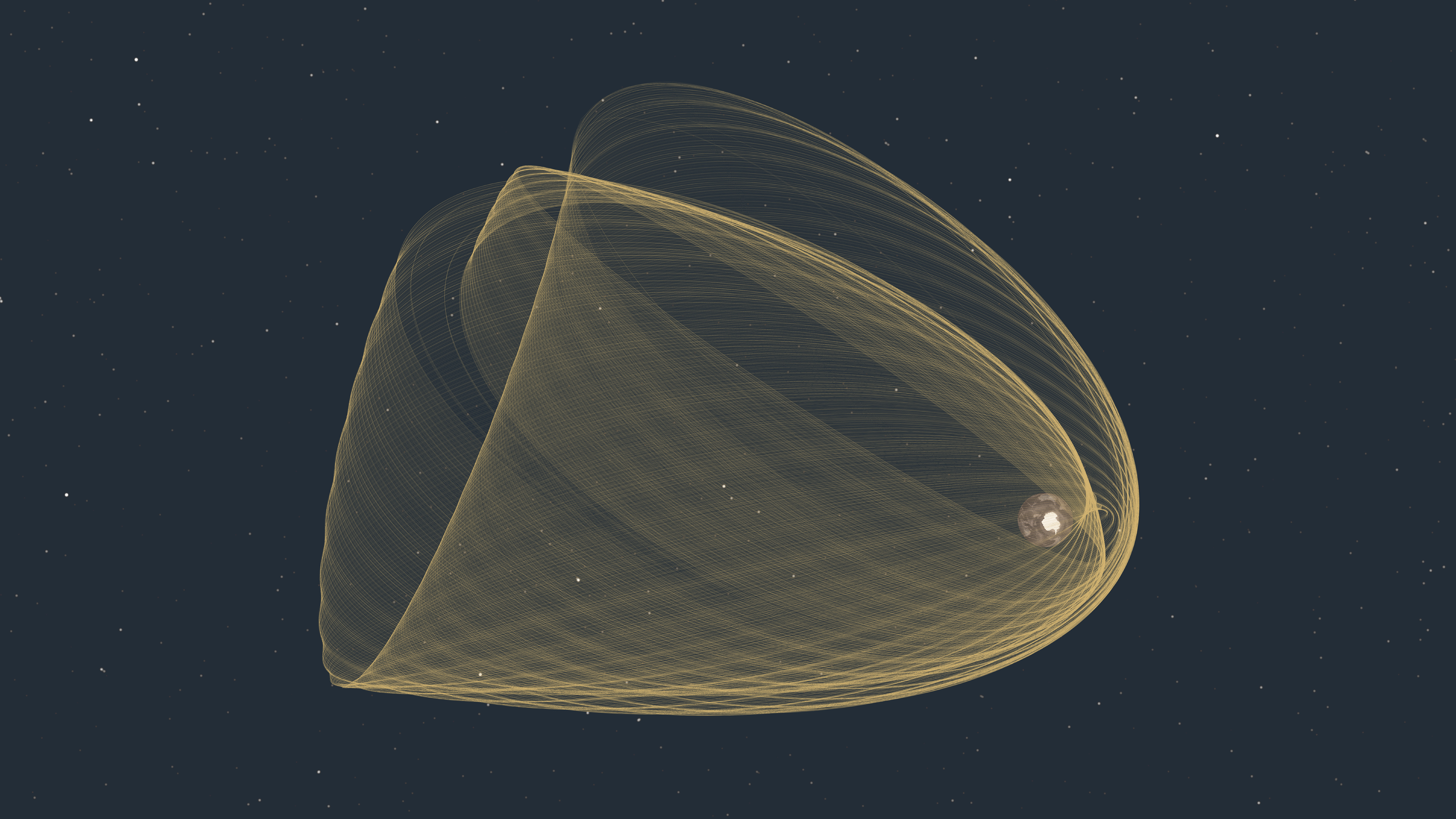 ESA’s Integral space observatory has been orbiting Earth for 15 years, observing the ever-changing, powerful and violent cosmos in gamma rays, X-rays and visible light. Studyingstars exploding as supernovas,monster black holesand, more recently, even gamma-rays that were associated withgravitational waves, Integral continues to broaden our understanding of the high-energy Universe. This image visualises the orbits of the spacecraft since its launch on 17 October 2002, until October of this year. Integral travels in a highly eccentric orbit. Over time, the closest and furthest points have changed, as has the plane of the orbit. The orbit brought it to within 2756 km of Earth at its closest, on 25 October 2011, to 159 967 km at the furthest, two days later. This kind of orbit provides long periods of uninterrupted observations with nearly constant background away from the radiation belts around Earth that would otherwise interfere with the satellite’s sensitive measurements. In 2015, spacecraft operators conducted four thruster burns carefully designed to ensure that the satellite’s eventual entry into the atmosphere in 2029 will meet the Agency’s guidelines for minimising space debris. Making these disposal manoeuvres so early also minimises fuel usage, allowing ESA to exploit the satellite’s lifetime to the fullest. The orbital changes introduced during these manoeuvres are seen in the wide-spaced orbits to the left of the image, highlighted in white in thisannotated versionof the image. Watch amovieshowing Integral's orbitsFind out more about Integral in thisinfographic